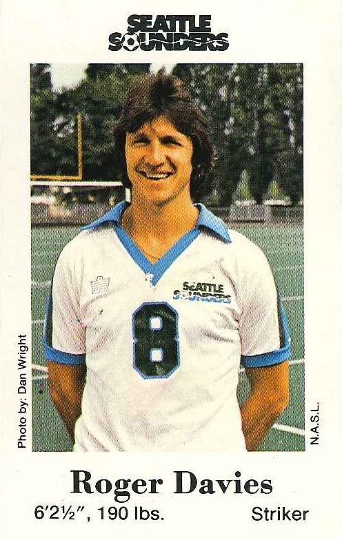 Seattle Sounders player, Roger Davis, on a trading card. Found in folder "Fire Department Ephmera," Fire Department Publications (Record Series 2801-12), Seattle Municipal Archives.